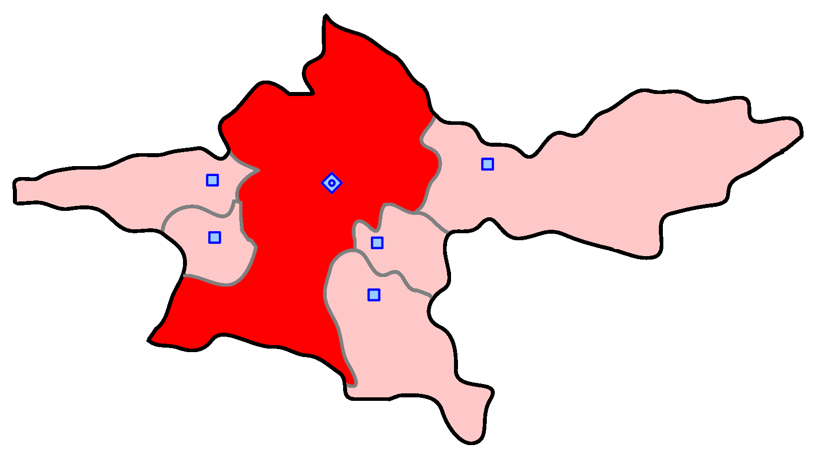 map of Tehran electoral district, Tehran Province, Iran